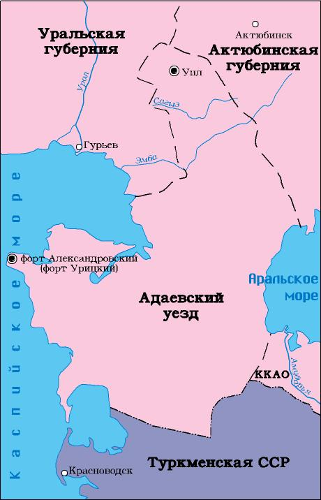 Map of Adaevskiy uezd